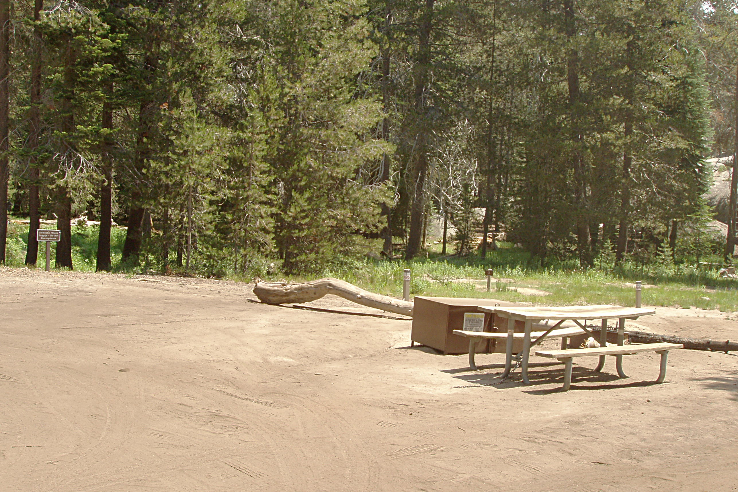 Campsite at Tamarack Flat Campground, Yosemite National Park